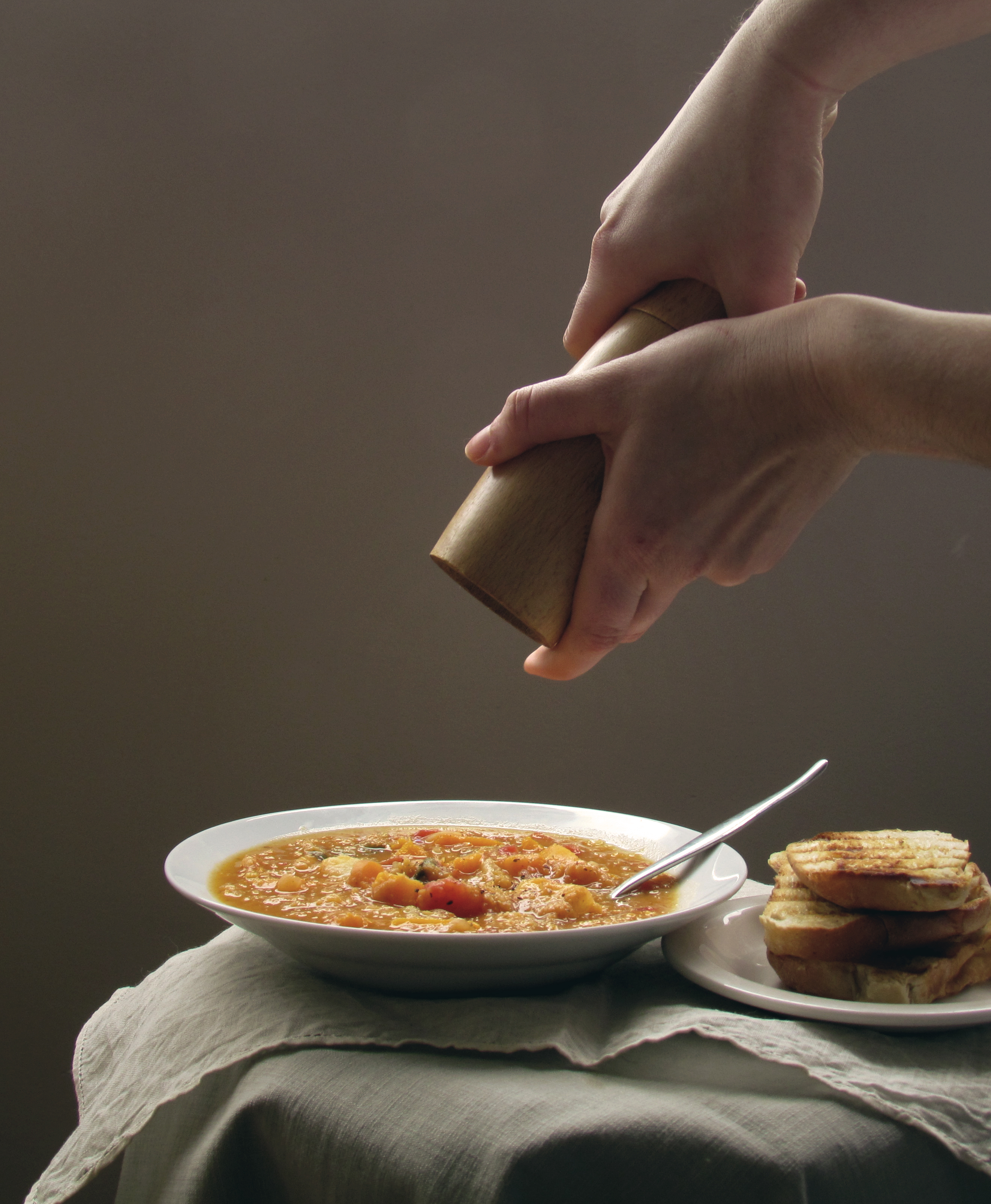 Lentil soup with pepper and toast